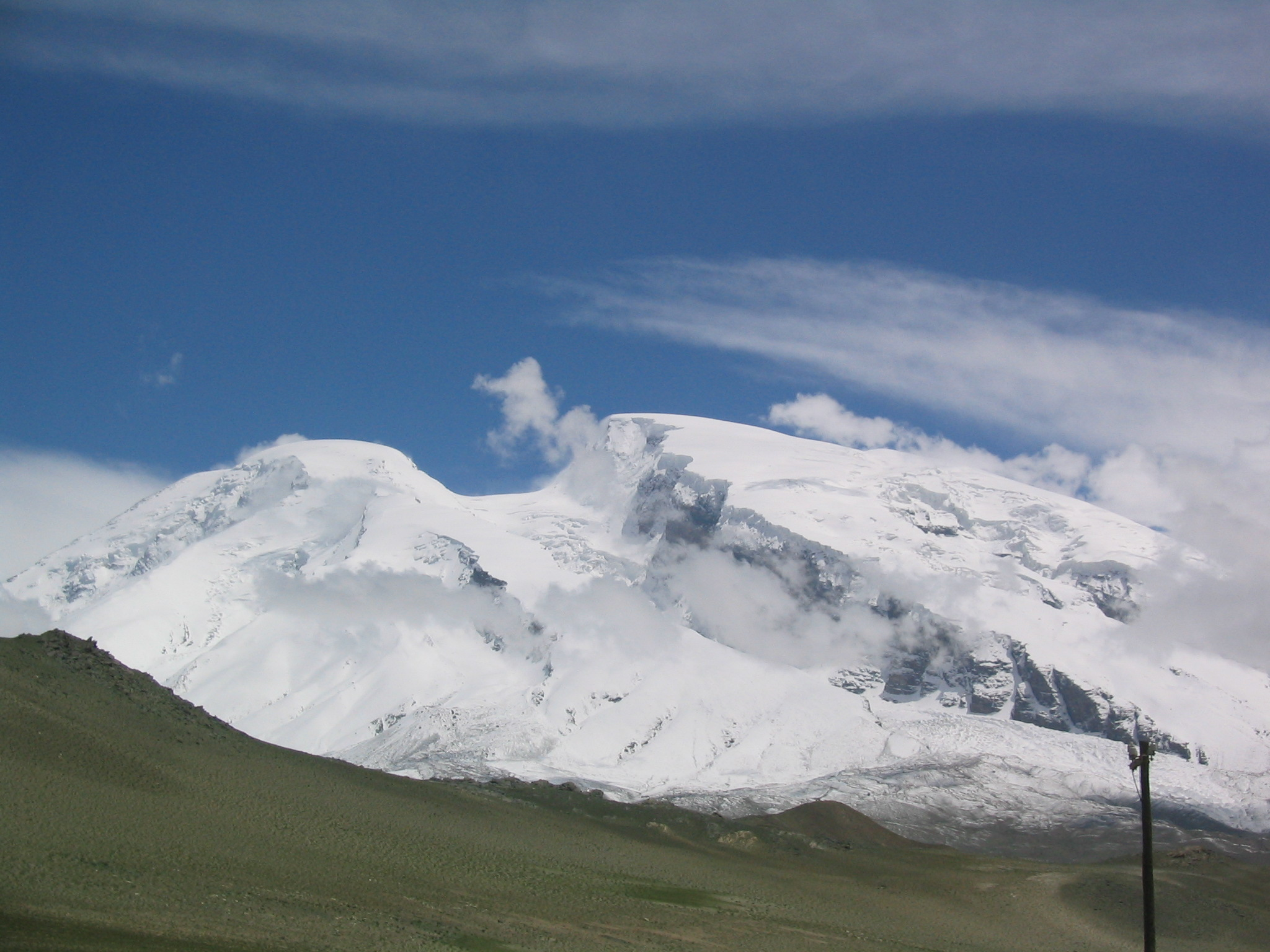 Muztagata as seen from the karakorum highway